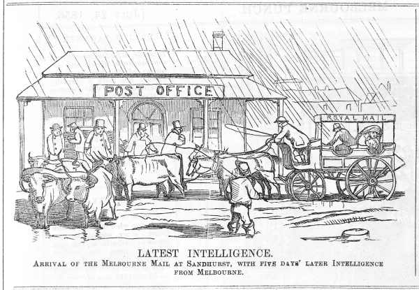 Sandhurst Post office in 1856